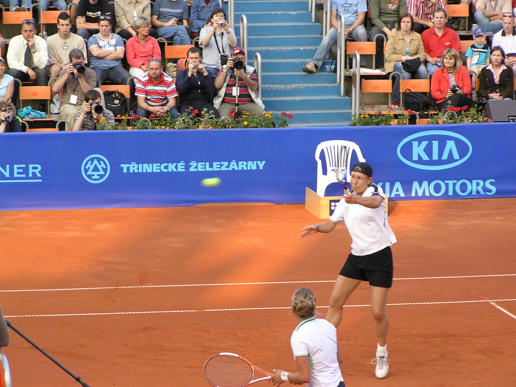 Martina Navrátilová ! Photo taken from ECM Prague Open 2006 ( - Prague, May 2006.